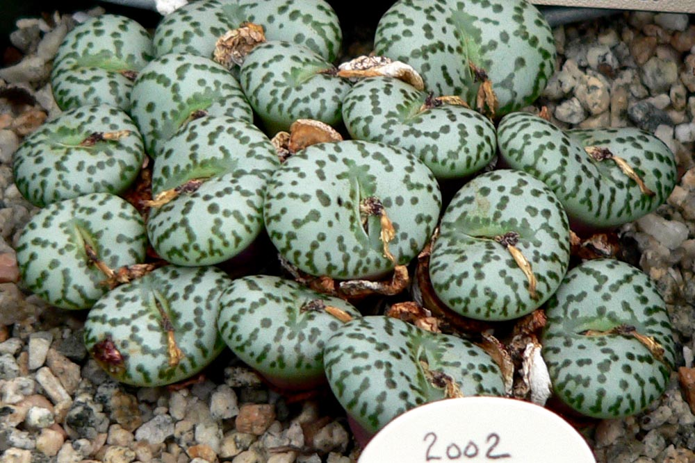 Photo of Conophytum obcordellum at the University of California Botanical Garden